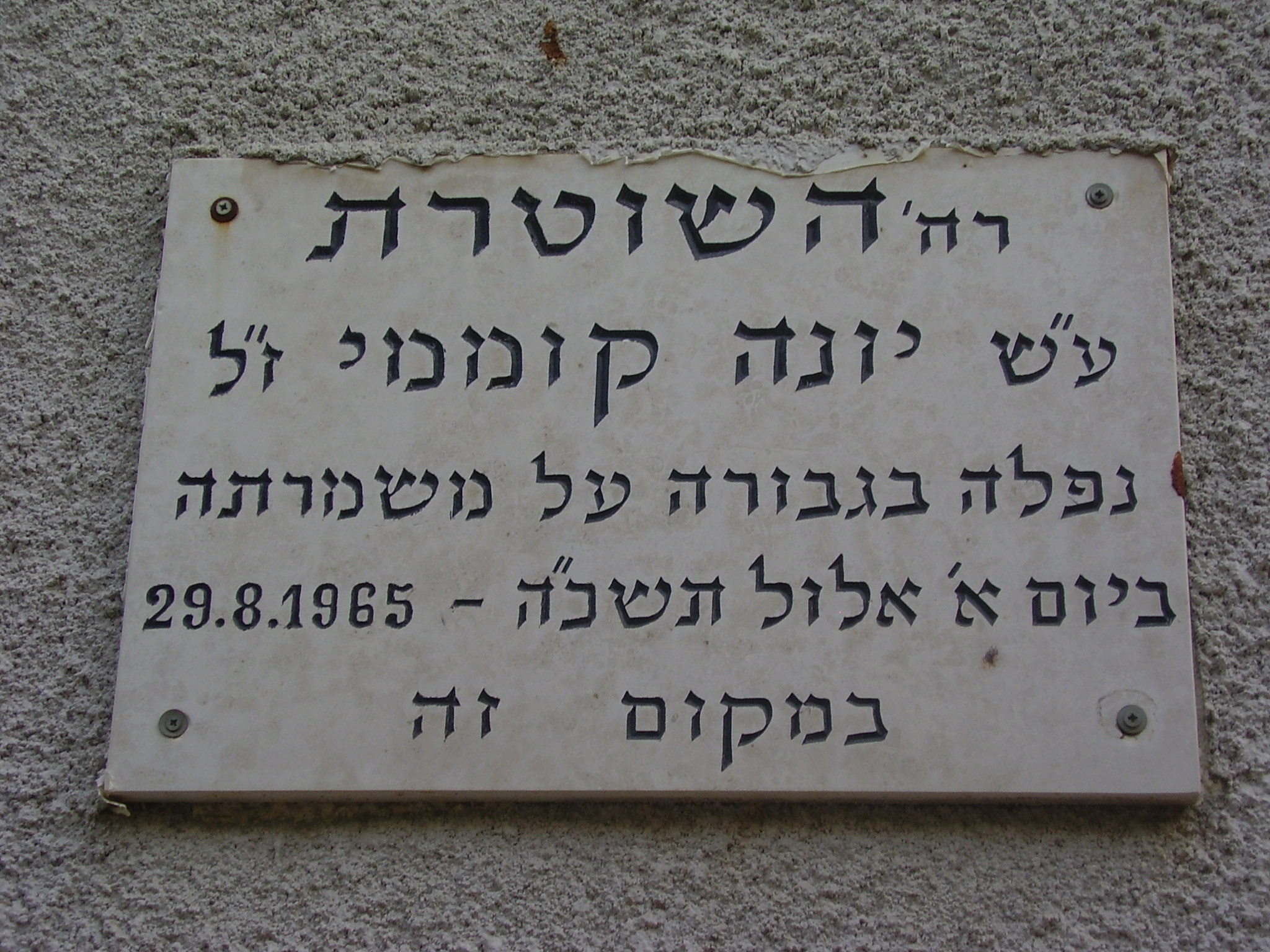 Memorial to Policewoman Yona Kumami in Ramat Gan